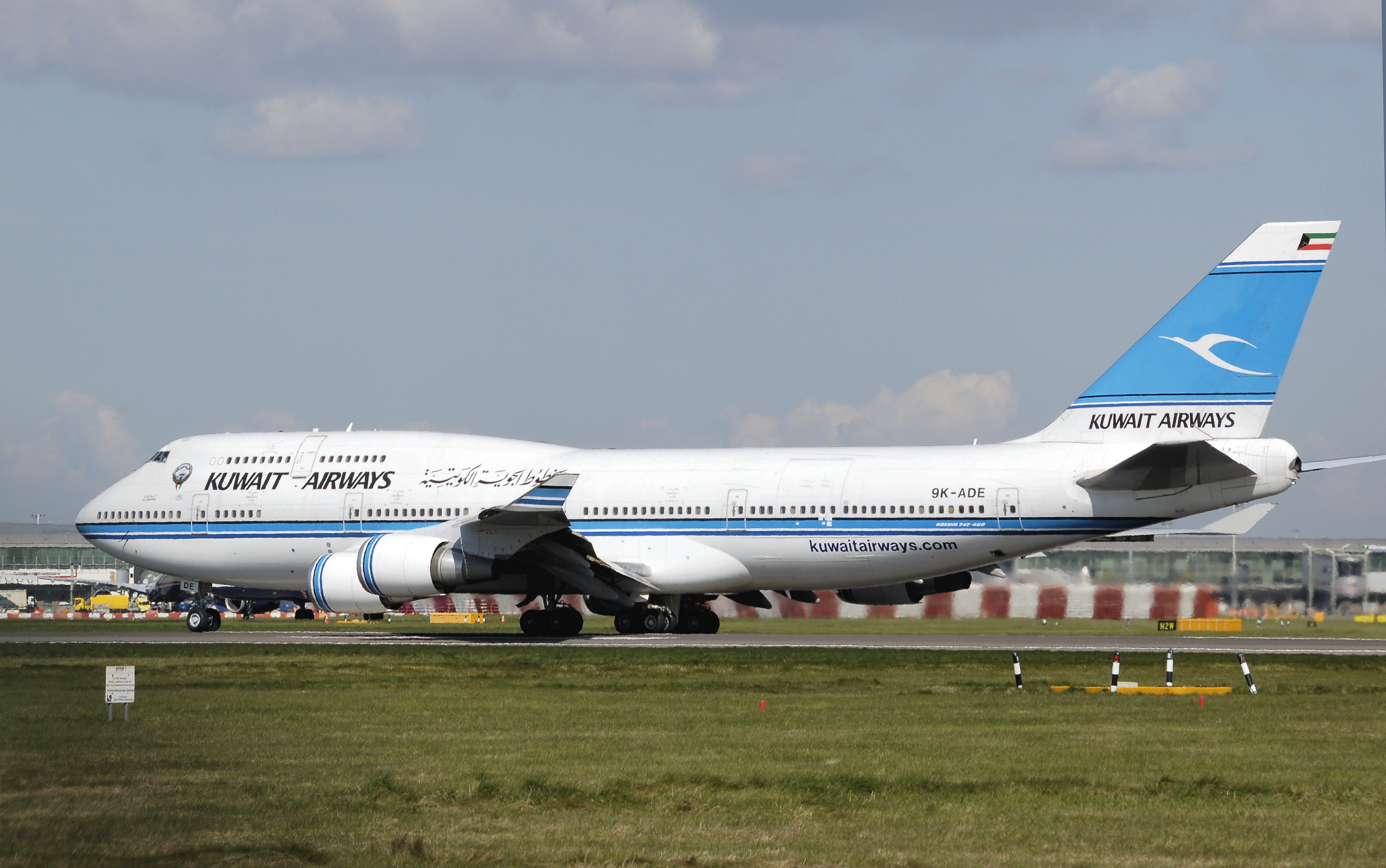 Kuwait Airways Boeing 747-400M (9K-ADE) taxis to the take off point at London Heathrow Airport, England.